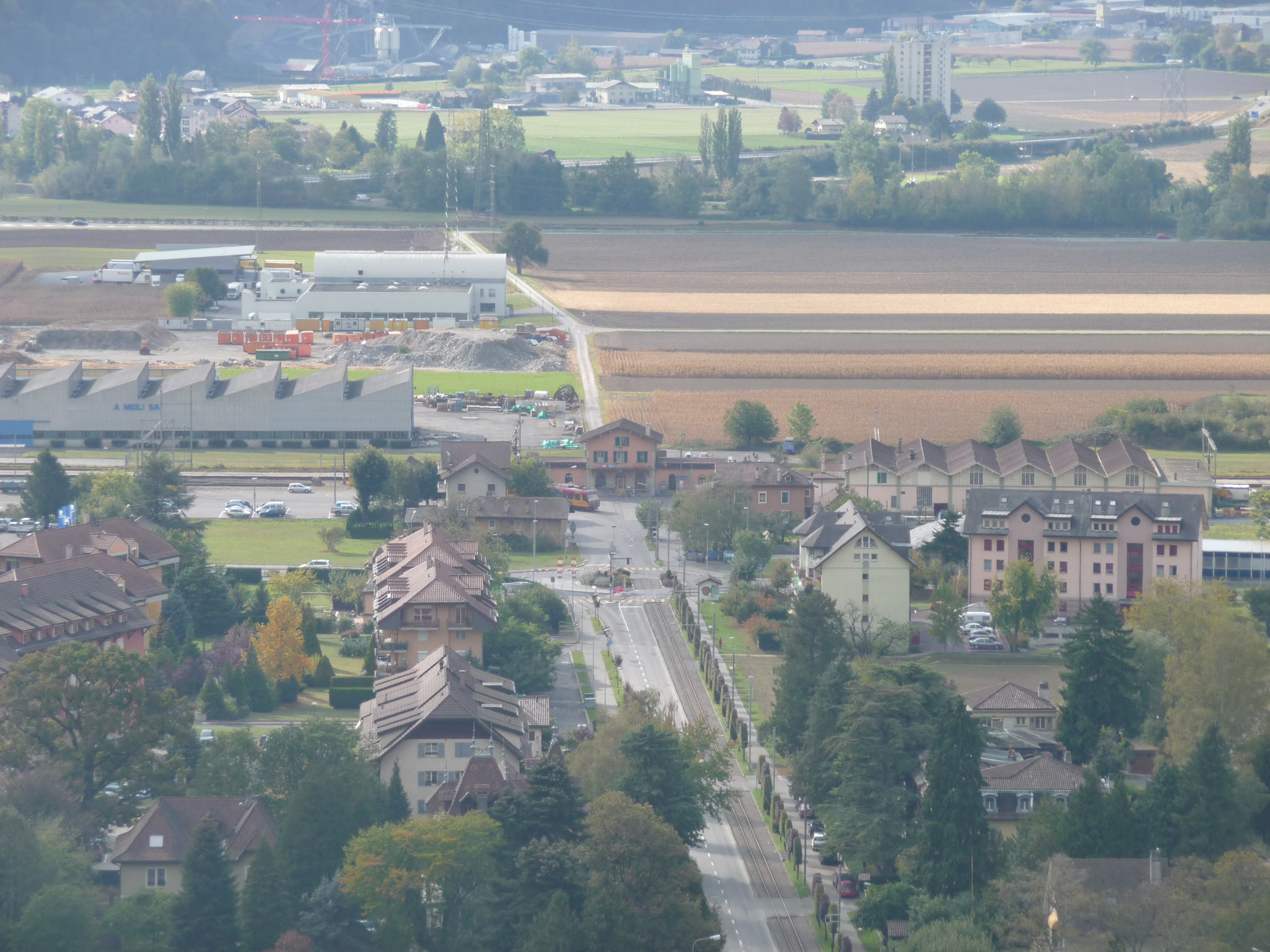 Train station of Bex.